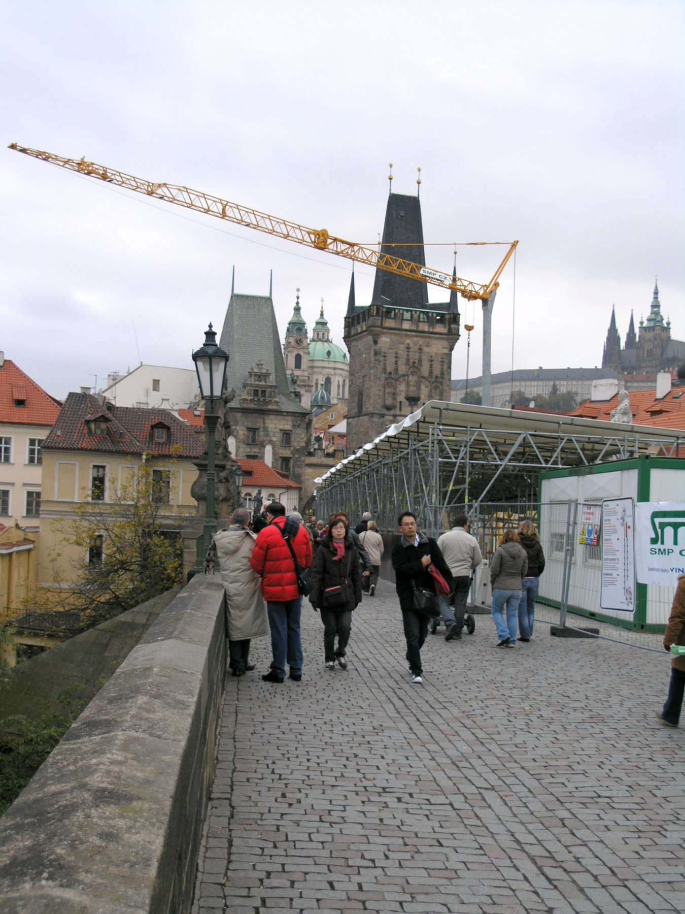 Karlův most, Praha / Charles Bridge, Prague